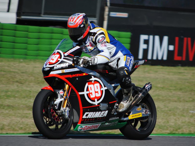 Tatsuya Yamaguchi 2010 Misano